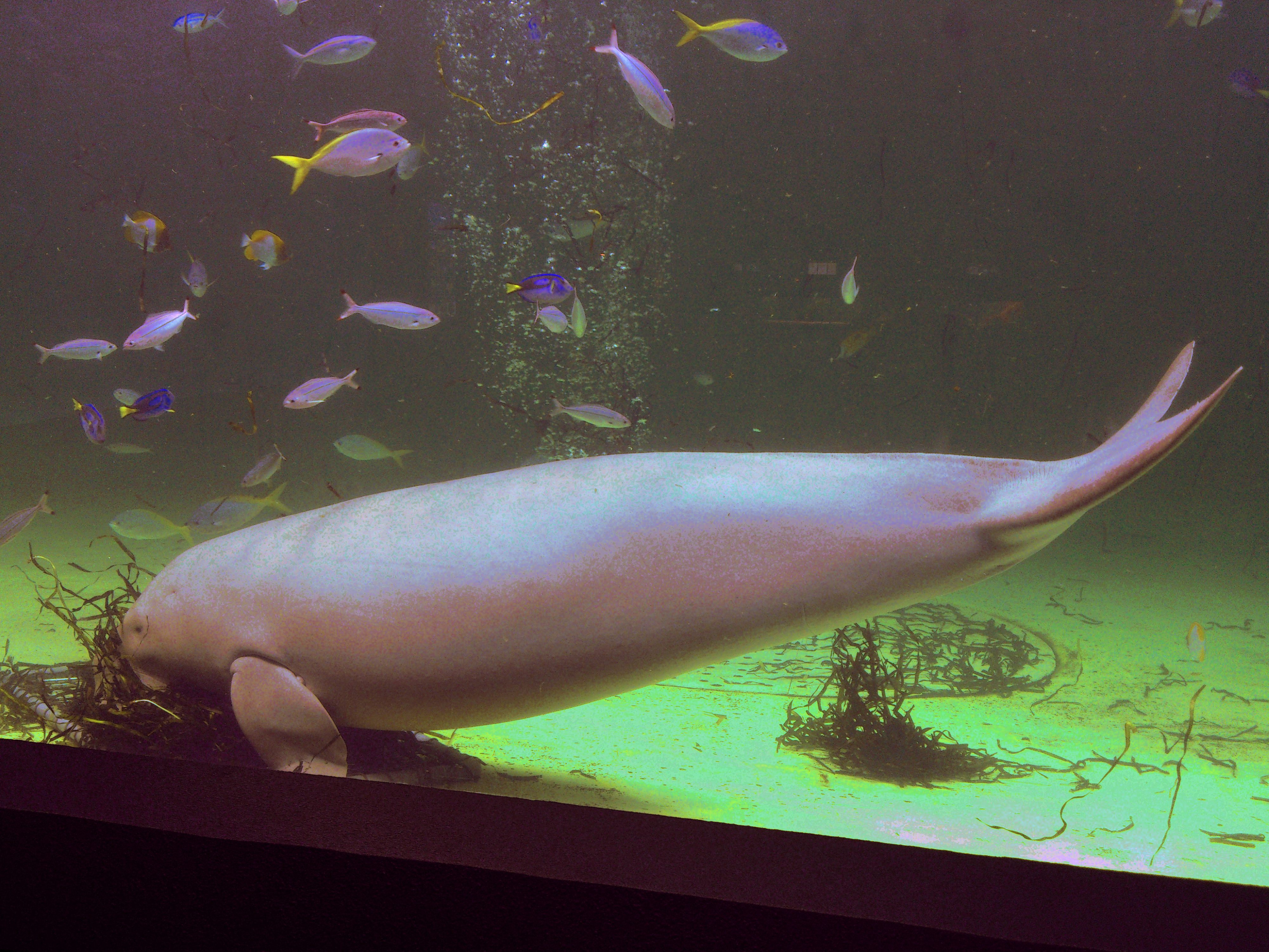 This is the dugong at Toba aquarium in Mie, Japan. This dugong's name is "Serena", a female dugong. Serena is only dugong in Japanese aquarium.